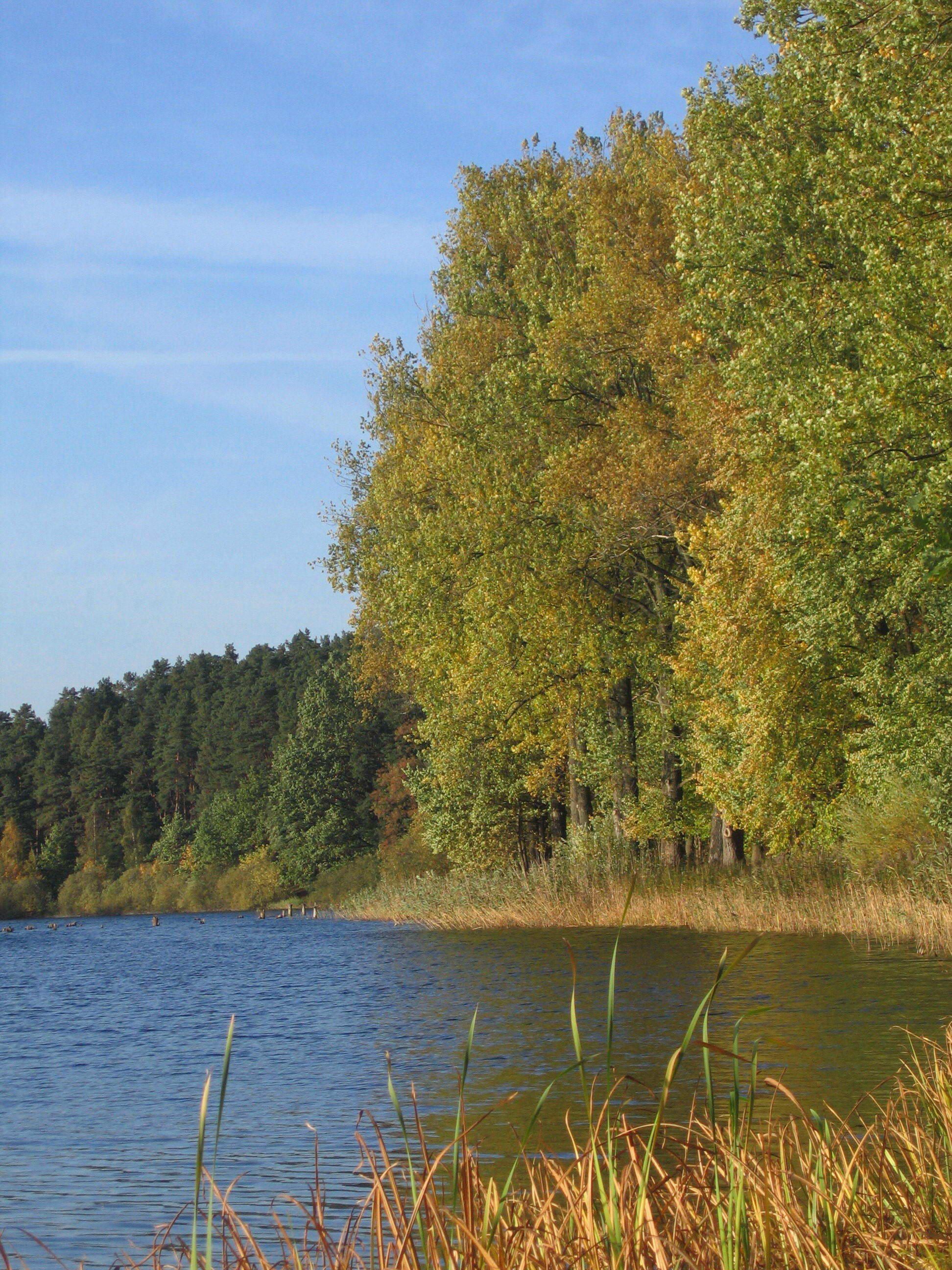 Lake Long in Olsztyn